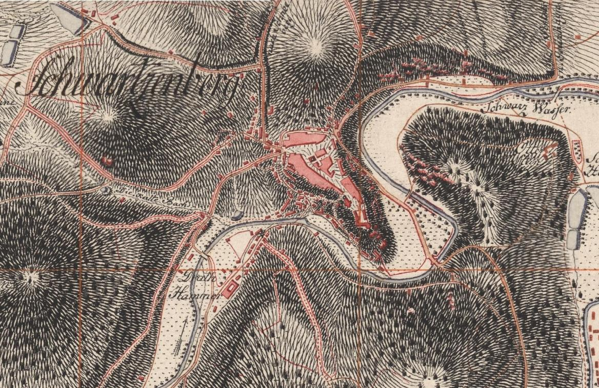 Schwarzenberg city, map 1790